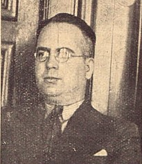 Bulgarian geographer Guncho Gunchev, 1937.